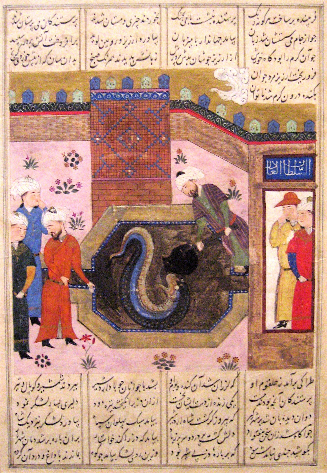 Iran, Shiraz Ardashir Feeds Molten Metal to Haftvad the Worm: Page from a Manuscript of the Shahnama (Book of Kings), circa 1485-95 Manuscript Painting; Book/manuscript/album; Manuscript Illustration, Ink, opaque watercolor, and gold on paper, 8 7/8 x 6 in. (22.54 x 15.24 cm) The Nasli M. Heeramaneck Collection, gift of Joan Palevsky (M.73.5.411) Wikipedia Loves Art at the Los Angeles County Museum of Art This photo of item # M.73.5.411 at the Los Angeles County Museum of Art was contributed under the team name "artifacts" as part of the Wikipedia Loves Art project in February 2009. Los Angeles County Museum of Art The original photograph on Flickr was taken by Beesnest McClain—please add a comment to the original Flickr page whenever a use has been made on Wikipedia or another project. Project galleries on Flickr: this institution, this team